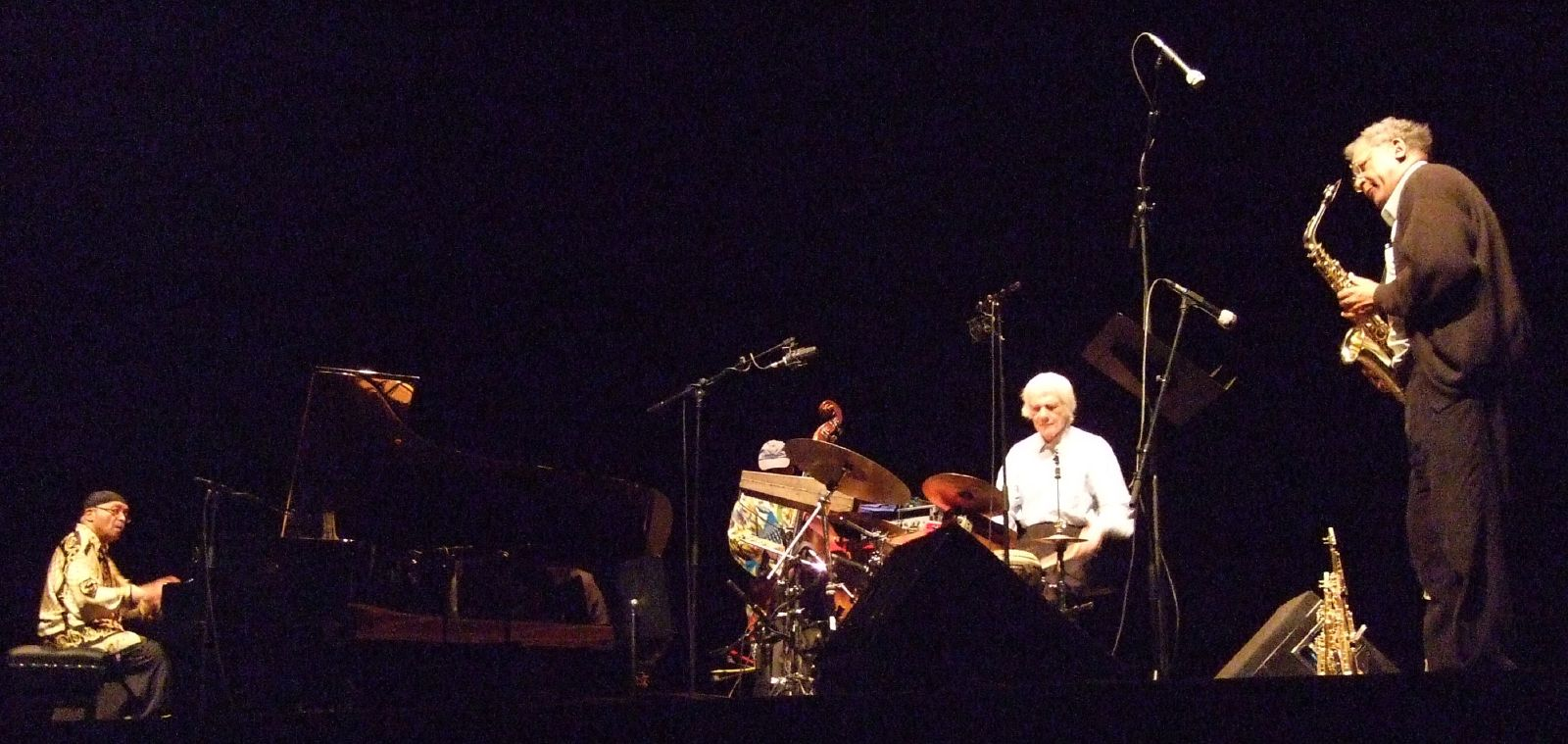 Cecil Taylor